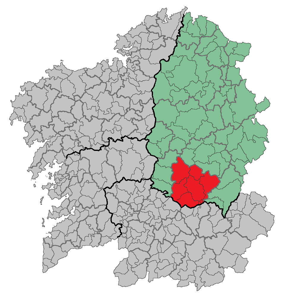 Region of Galicia (Spain) Based in: Image:Location of Betanzos.png Source: Designed by Leoplus. Original picture, designed by Caiser over a work made by Alyssalover.